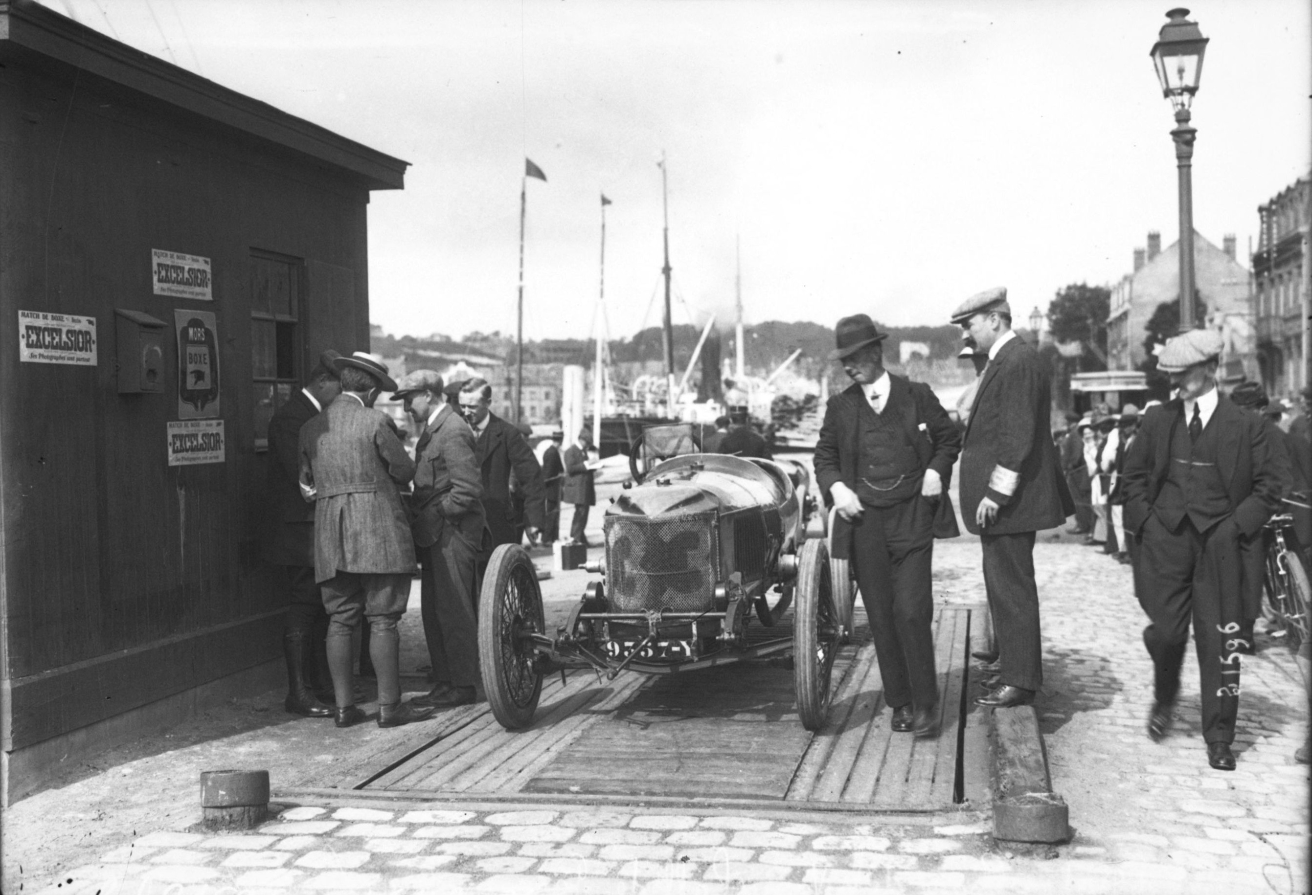 Percy Lambert in his Vauxhall at the 1912 French Grand Prix at Dieppe.